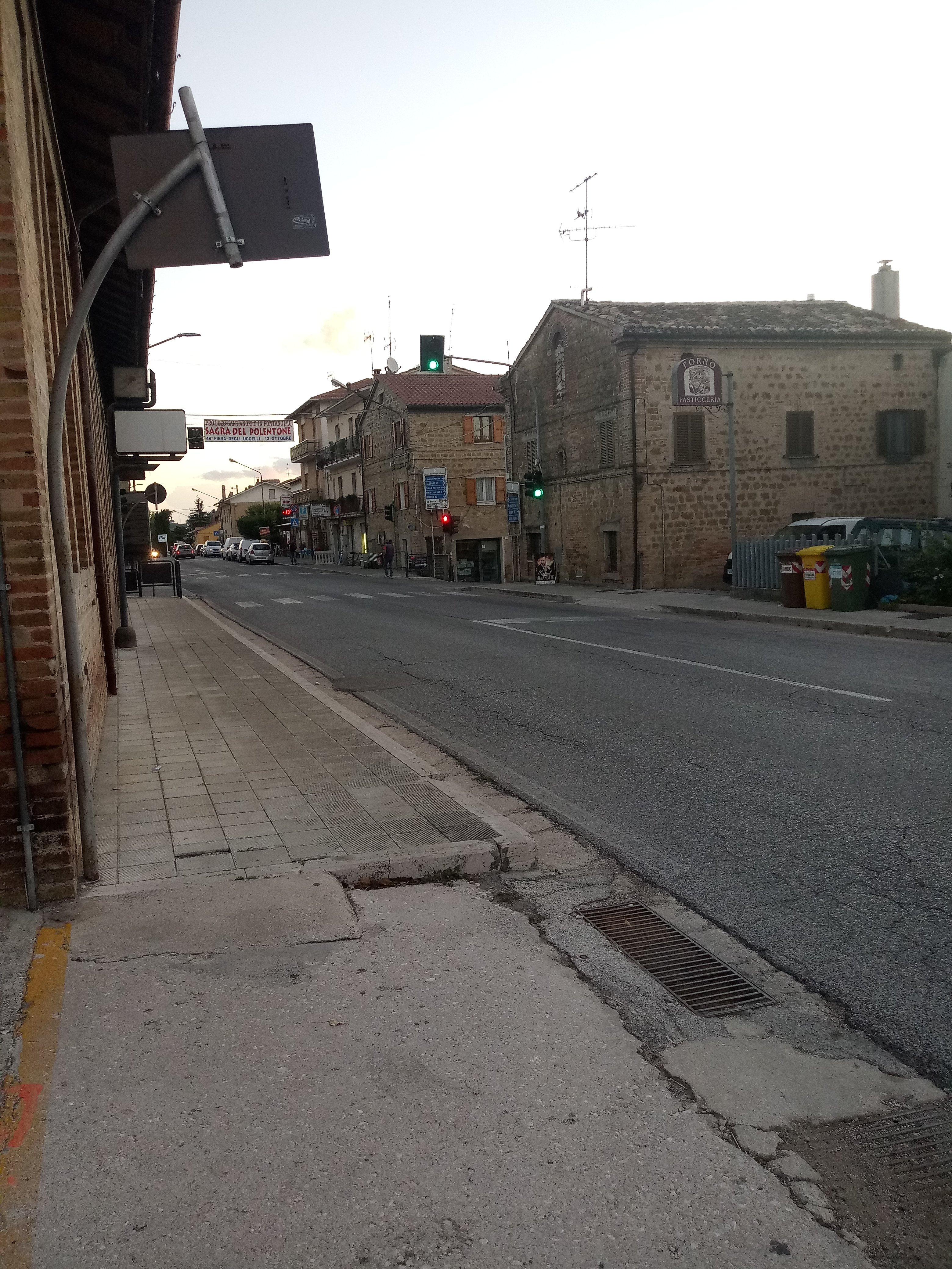 Border between the hamlets of Passo San ginesio and Passo Sant'Angelo, created by the road "ex SS78"